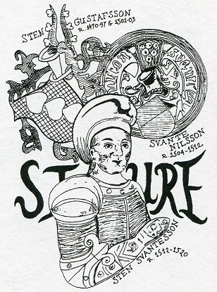 Picture representing the Lords Sture (Sten Gustavsson Sture [den äldre], Svante Nilsson Sture & Sten Svantesson Sture [den yngre] - see categories below)), regent dictators of Sweden, from page 41 of the 1996 book Throne of a Thousand YearsPlace: Stockholm, Sweden